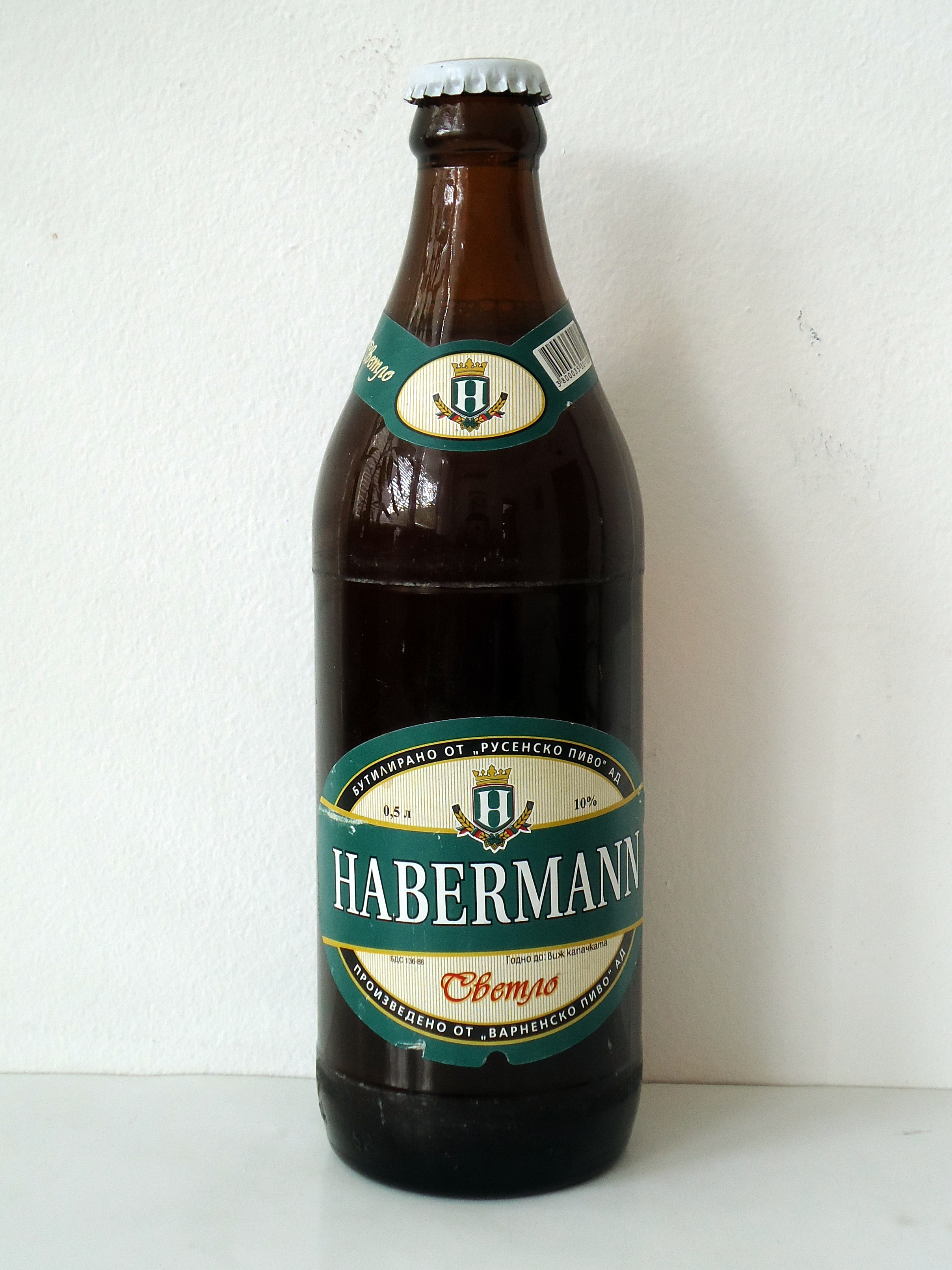 Habermann beer